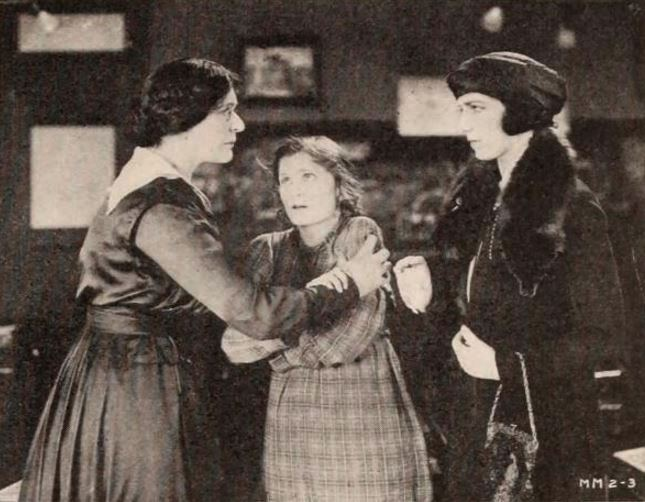 Still from the American comedy film Nobody's Kid (1921) with Mae Marsh, Anne Schaefer, and Kathleen Kirkham, on page 57 of the April 23, 1921 Exhibitors Herald.